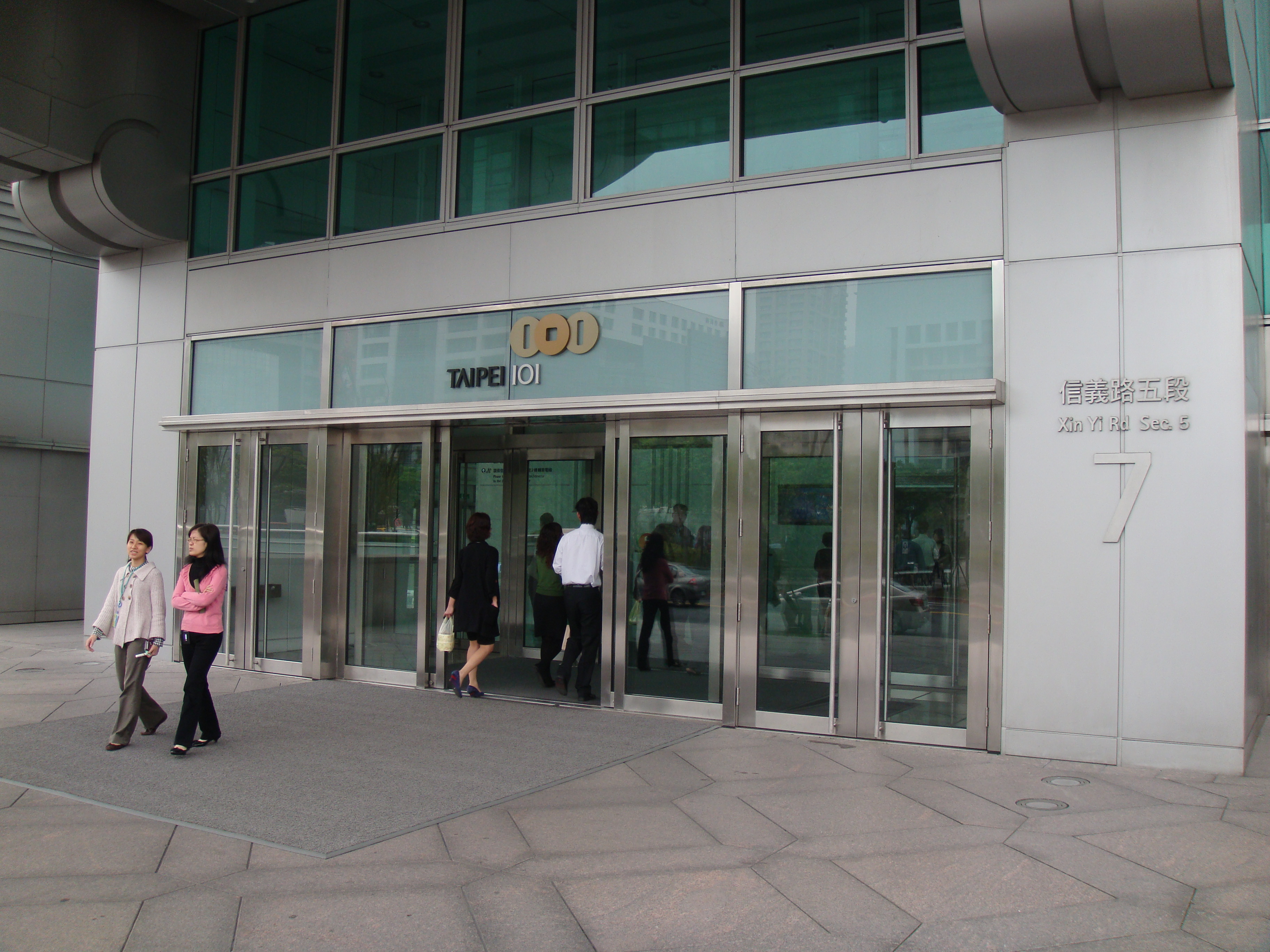 Main entrance of Taipei 101, office wing.